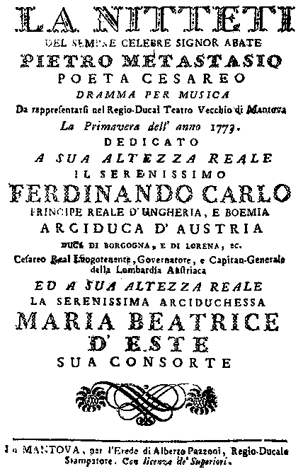 Luigi Gatti - Nitteti - titlepage of the libretto - Mantua 1773